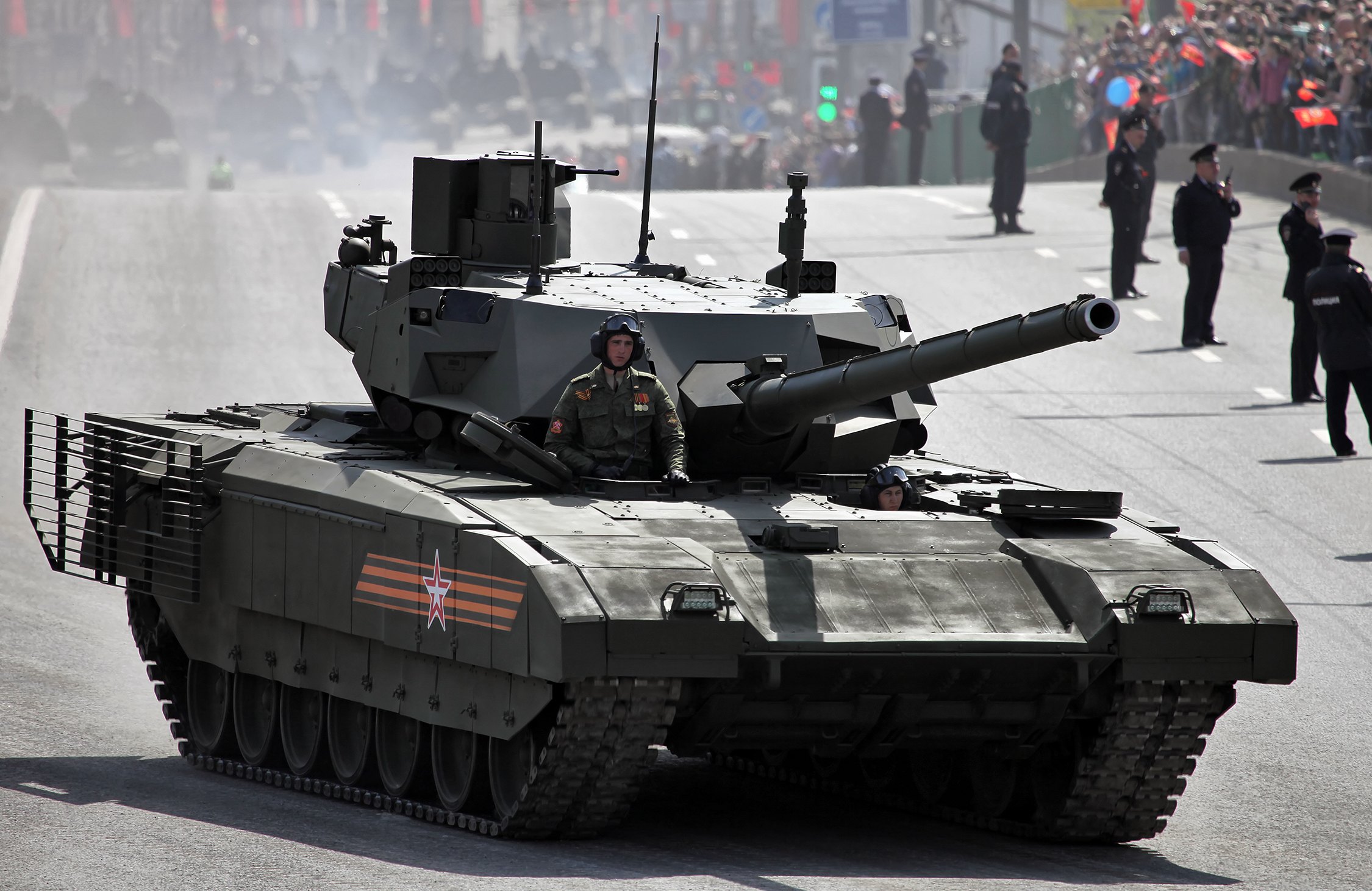 Main battle tank T-14 object 148 Armata (in the streets of Moscow on the way to or from the Red Square)